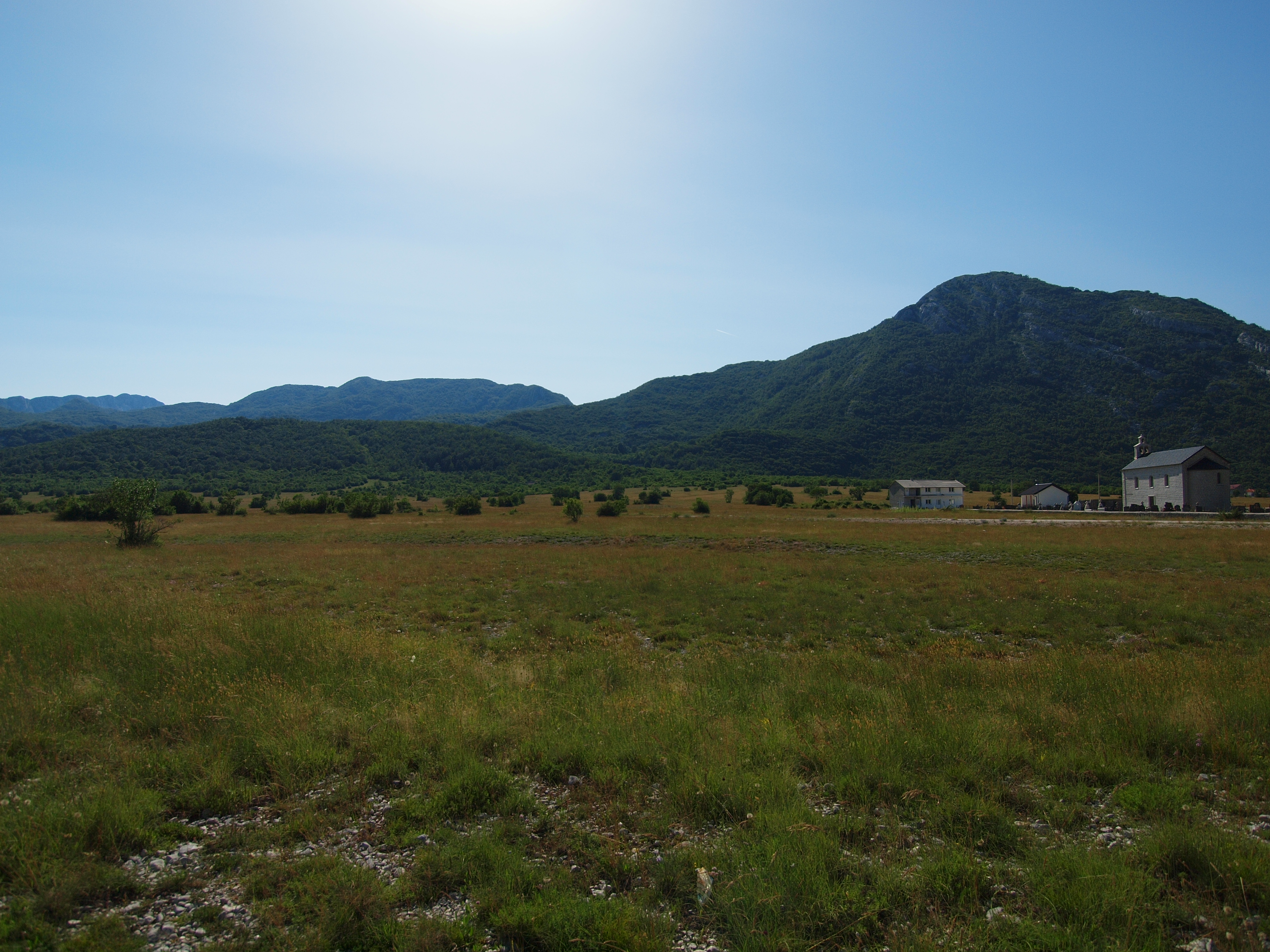 Dragalj polje place in the backround Jankov vrh to the right and Mt Orjen - Bijela gora to the left